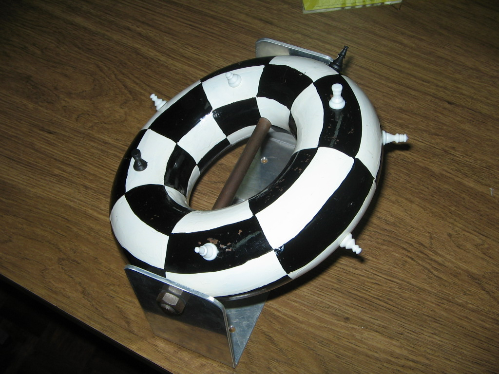 A toroidal chessboard. Chessboard made by Emanuela Ughi (University of Perugia).